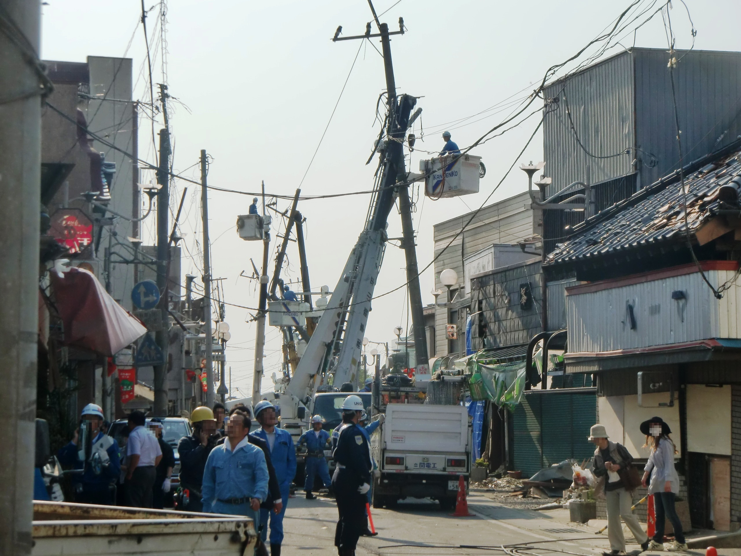 May 6th 2012 Tornado damage to houses and its recovery in Hōjō Shōtengai, Tsukuba city, Ibaraki prefecture, Japan.